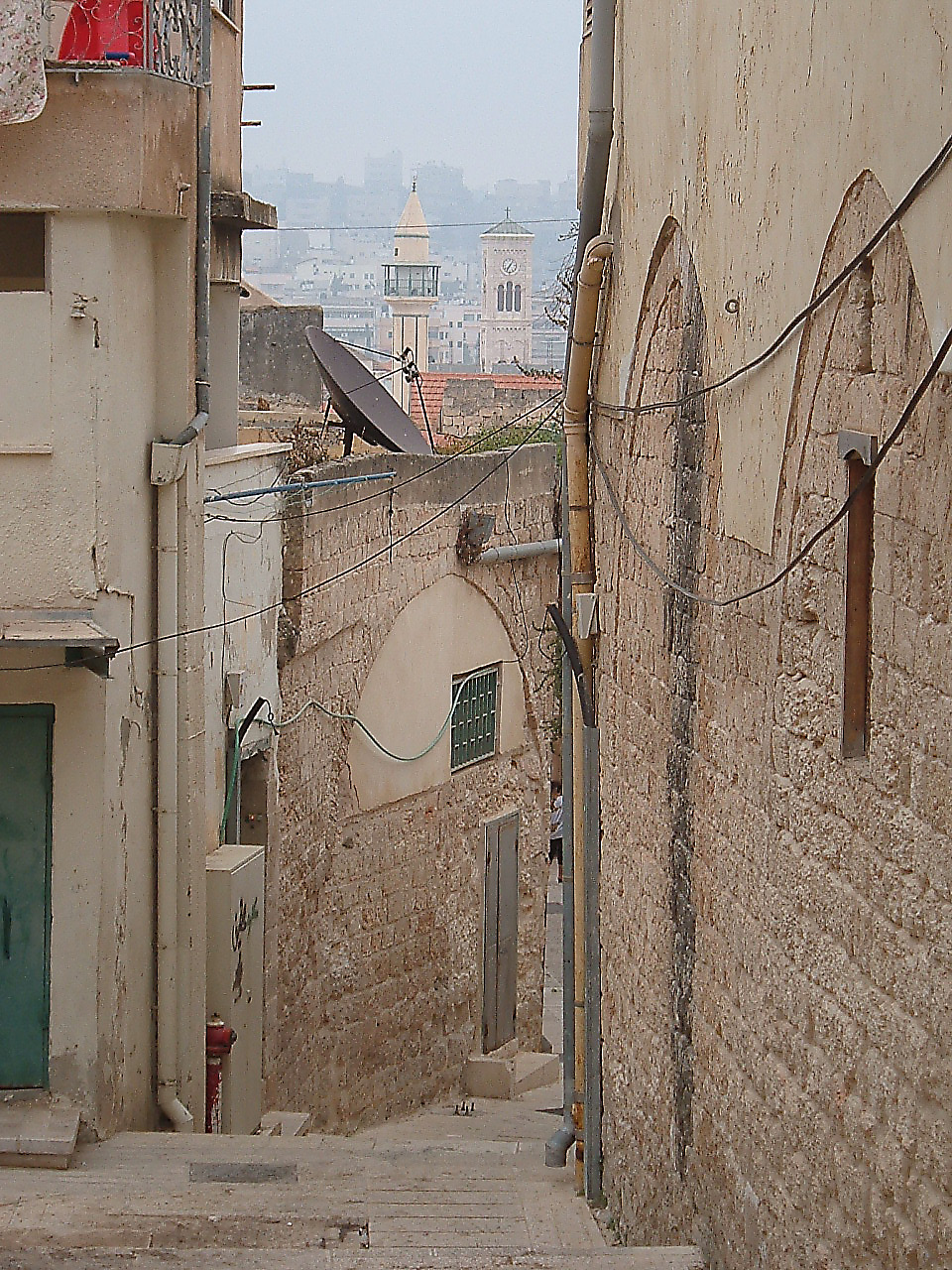 Nazareth - The minaret of the White Mosque and the clock tower beside the Basilica of the Annunciation from the streets of the Old City